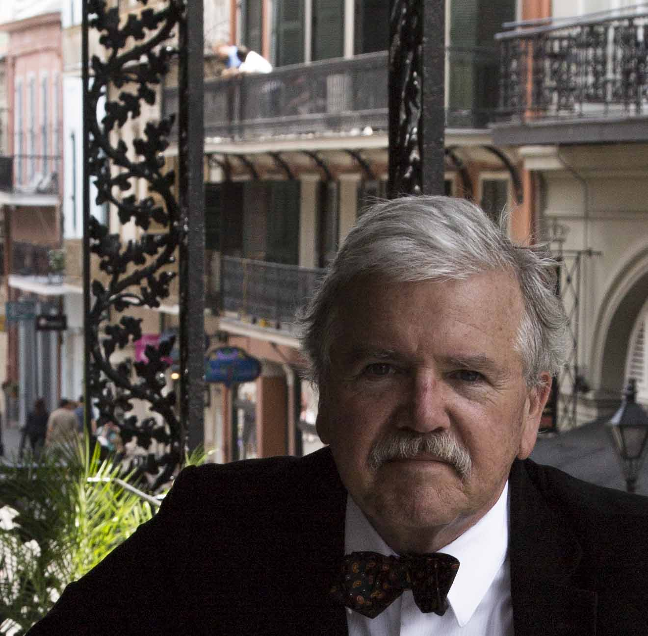 Roy Guste on Antoine's Restaurant balcony at Royal and St Louis Streets.